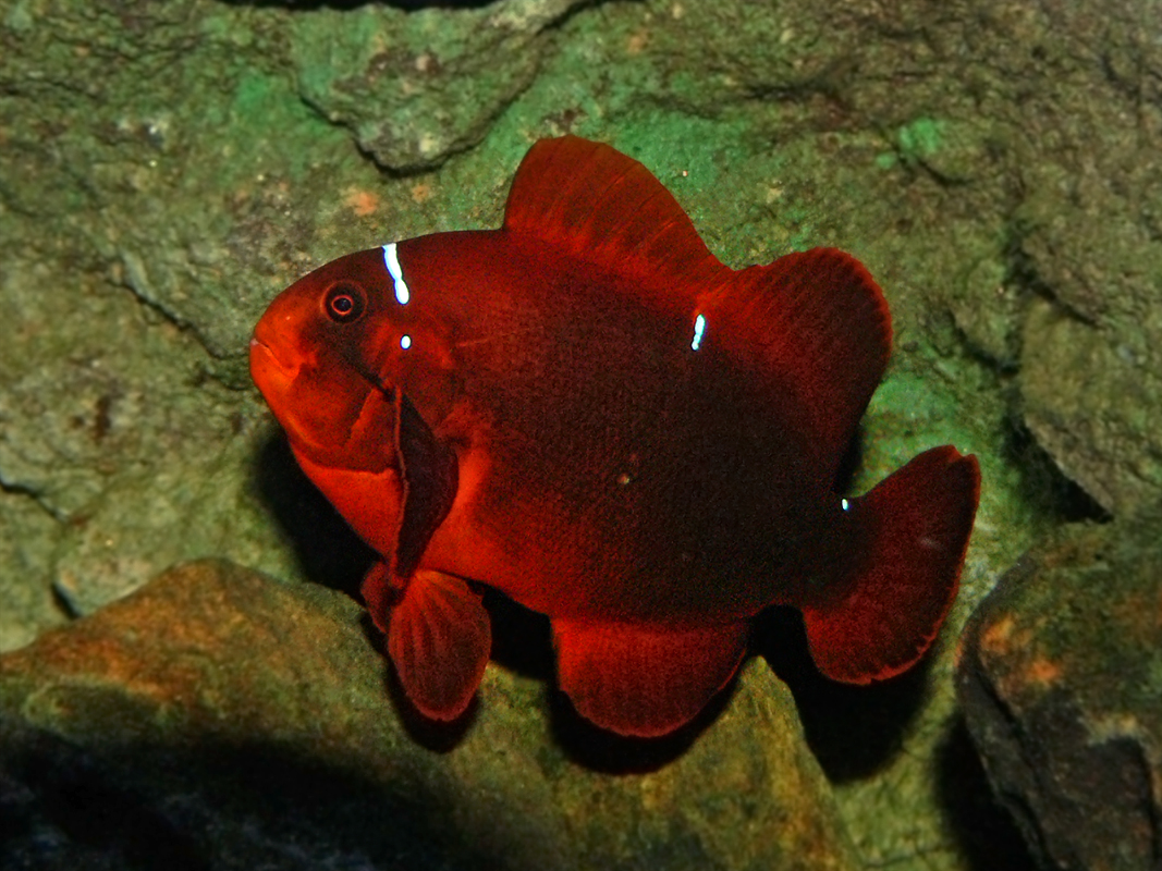 maroon clownfish, Premnas biaculeatus, is a species of clownfish that is found in the Indo-Pacific from western Indonesia to Taiwan and the Great Barrier Reef